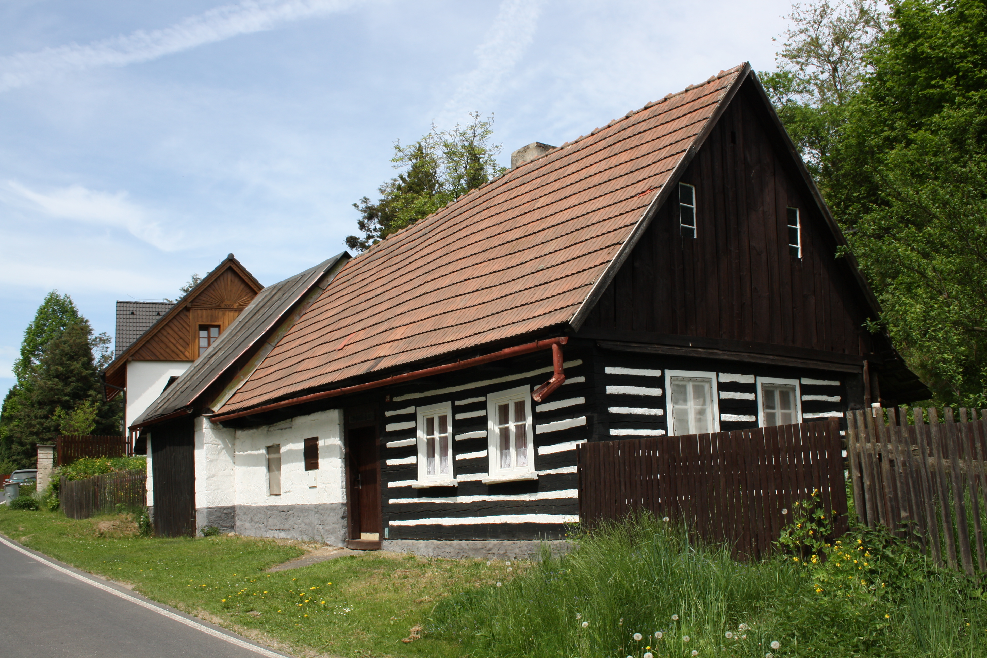 Kruh (Doksy), Česká Lípa District, Liberec Region, Czech Republic This photograph was taken with a DSLR from WMCZ's Camera grant. Project: Fotíme Česko